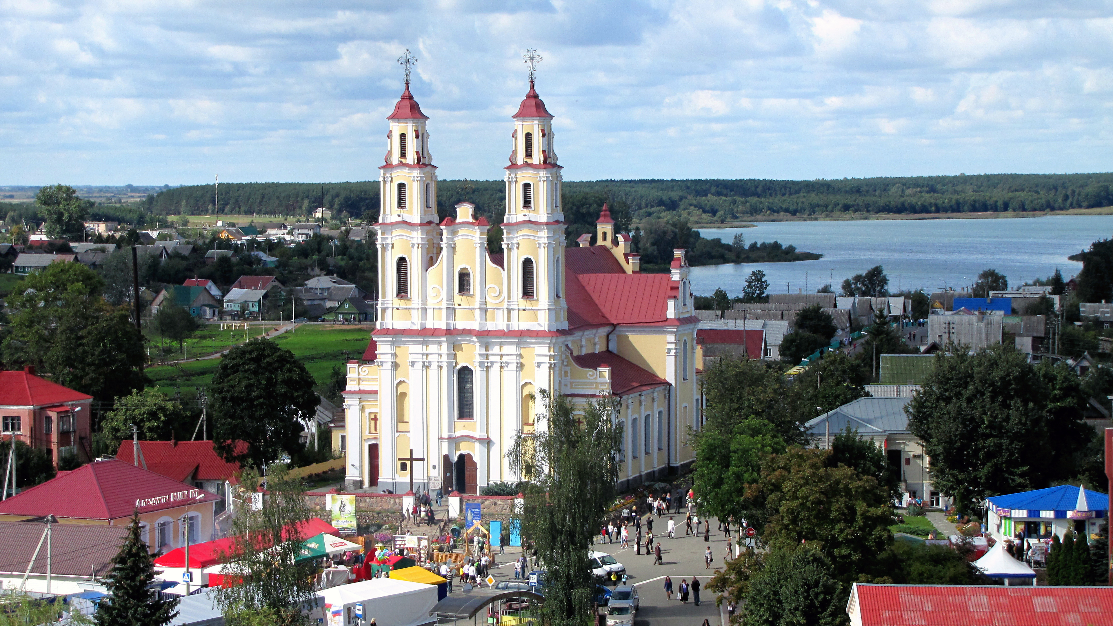 Trinity сhurch 1764-82, c. Hlybokaye